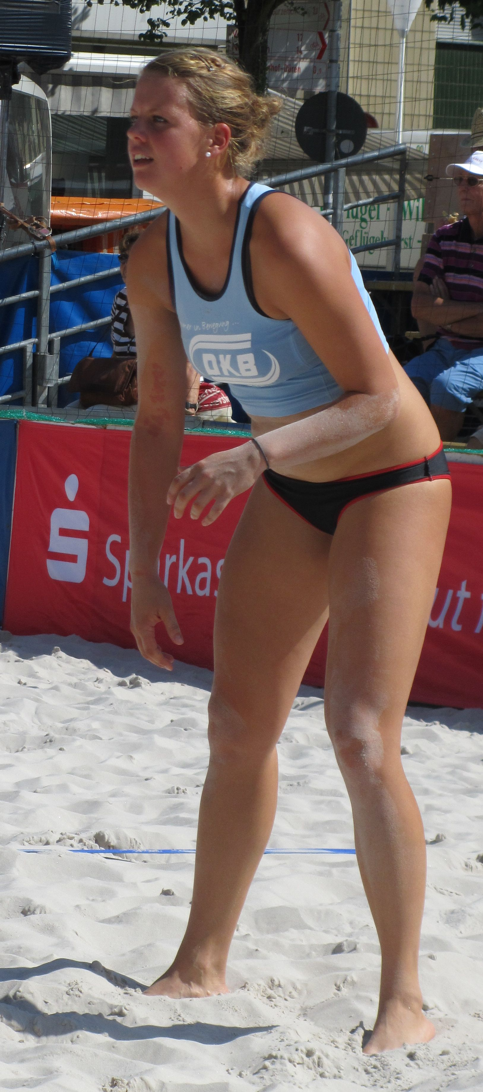 the German beach volleyball player Britta Büthe at the DKB Beach Cup 2011 in Düren, Germany